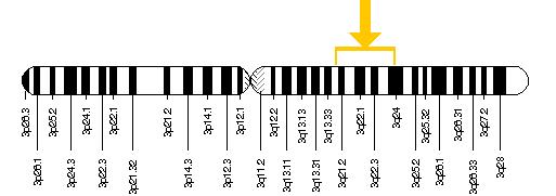 RHO gene. Cytogenetic Location: 3q21-q24 The RHO gene is located on the long (q) arm of chromosome 3 between positions 21 and 24. More precisely, the RHO gene is located from base pair 129,528,638 to base pair 129,535,343 on chromosome 3.